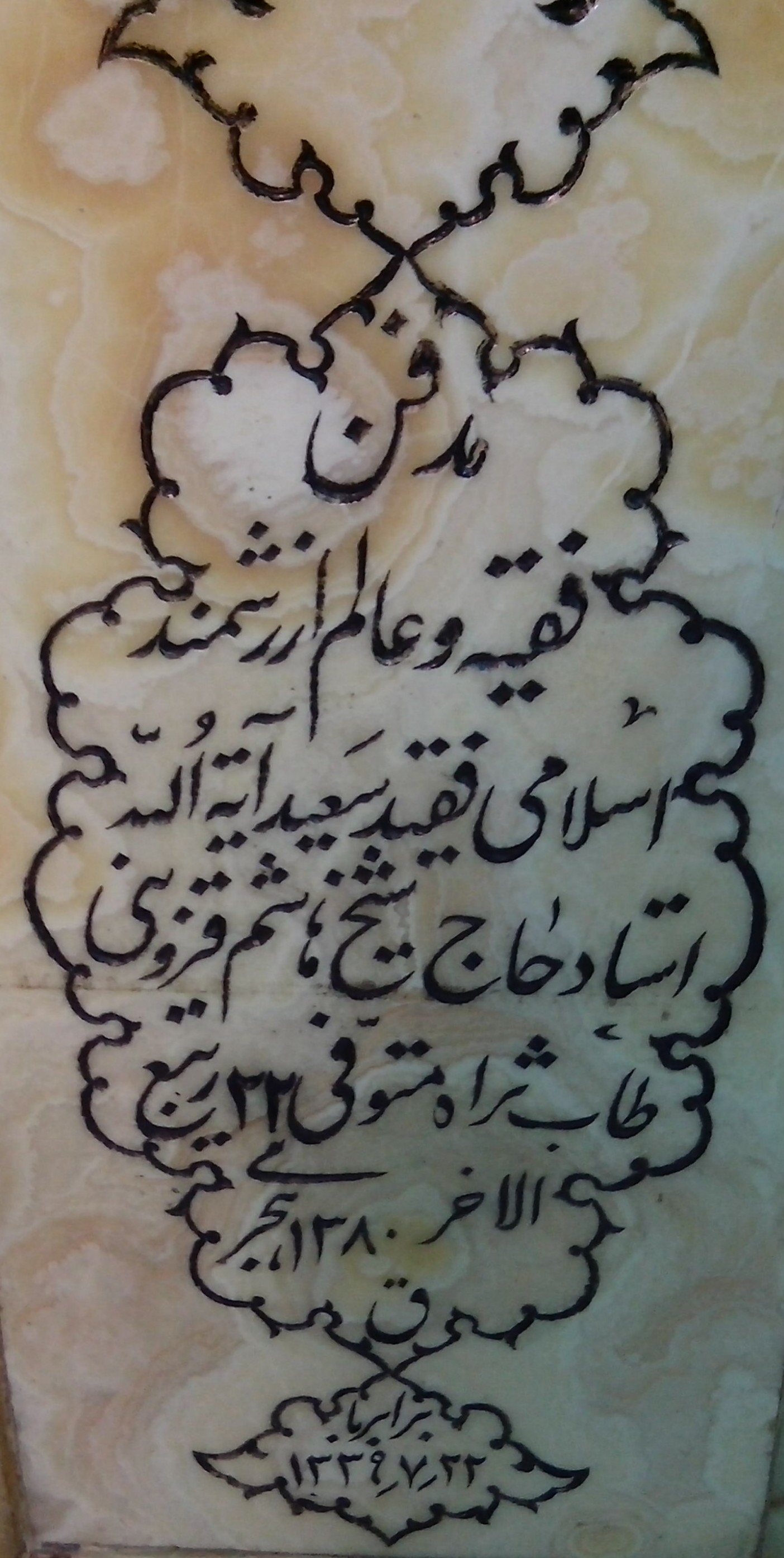 He was Shia scholar.